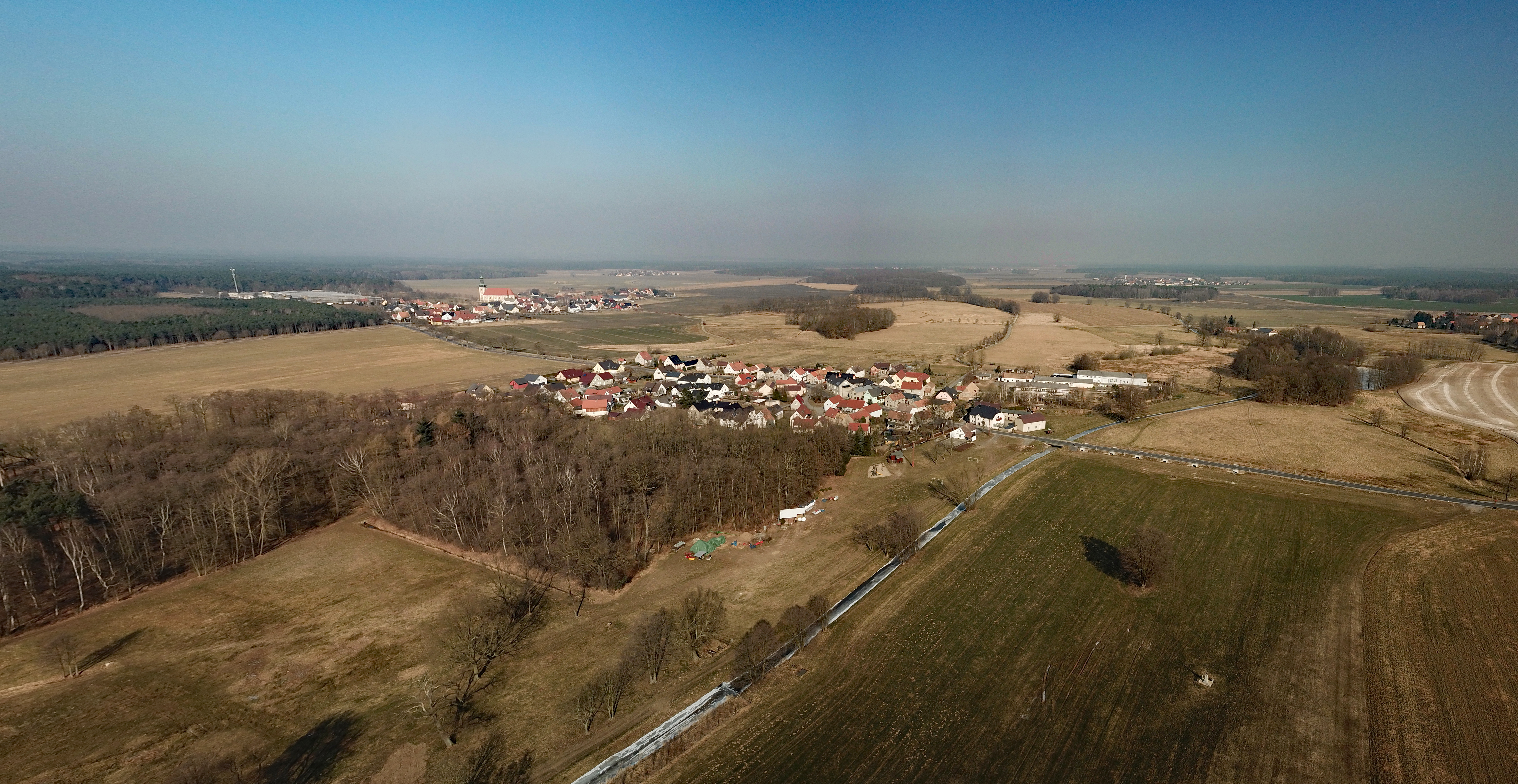 Zerna (Ralbitz-Rosenthal, Saxony, Germany) Hornjoserbsce: Powětrowy wobraz Sernjan z Róžantom w pozadku